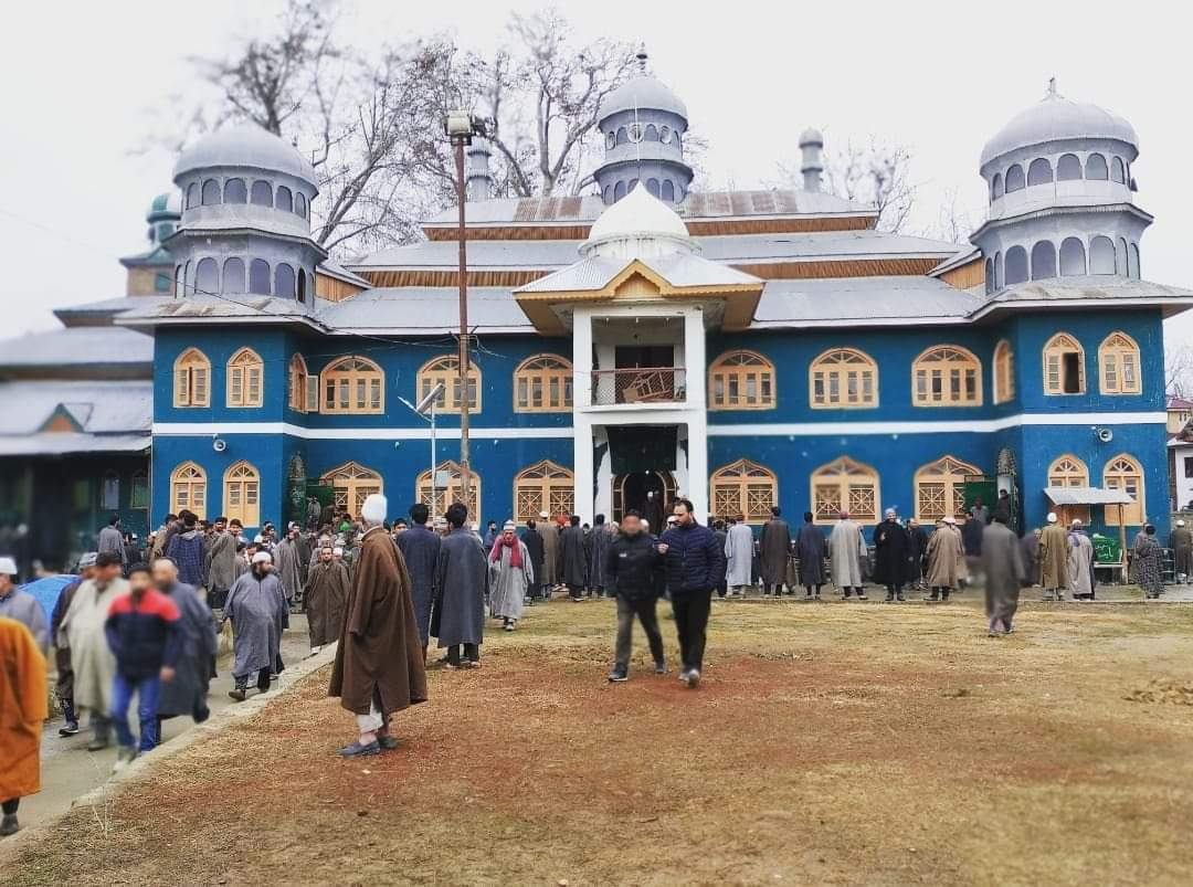 I clicked this image of the shrine of Pethmakhama Shrine